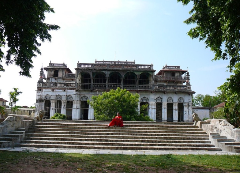 Challapalli Raja's Fort